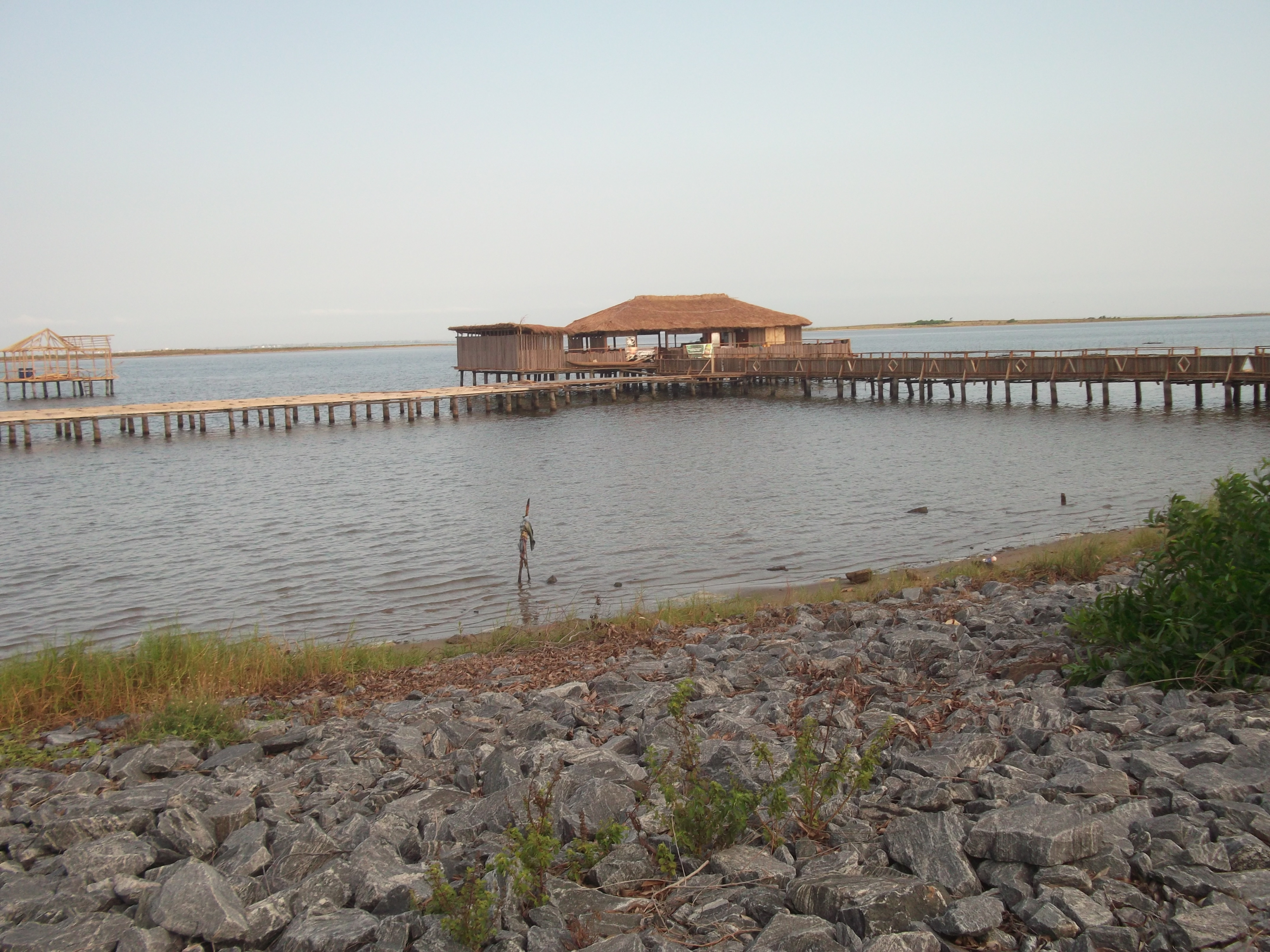 Keta Lagoon tourist centres are at Kedzikope and Keta